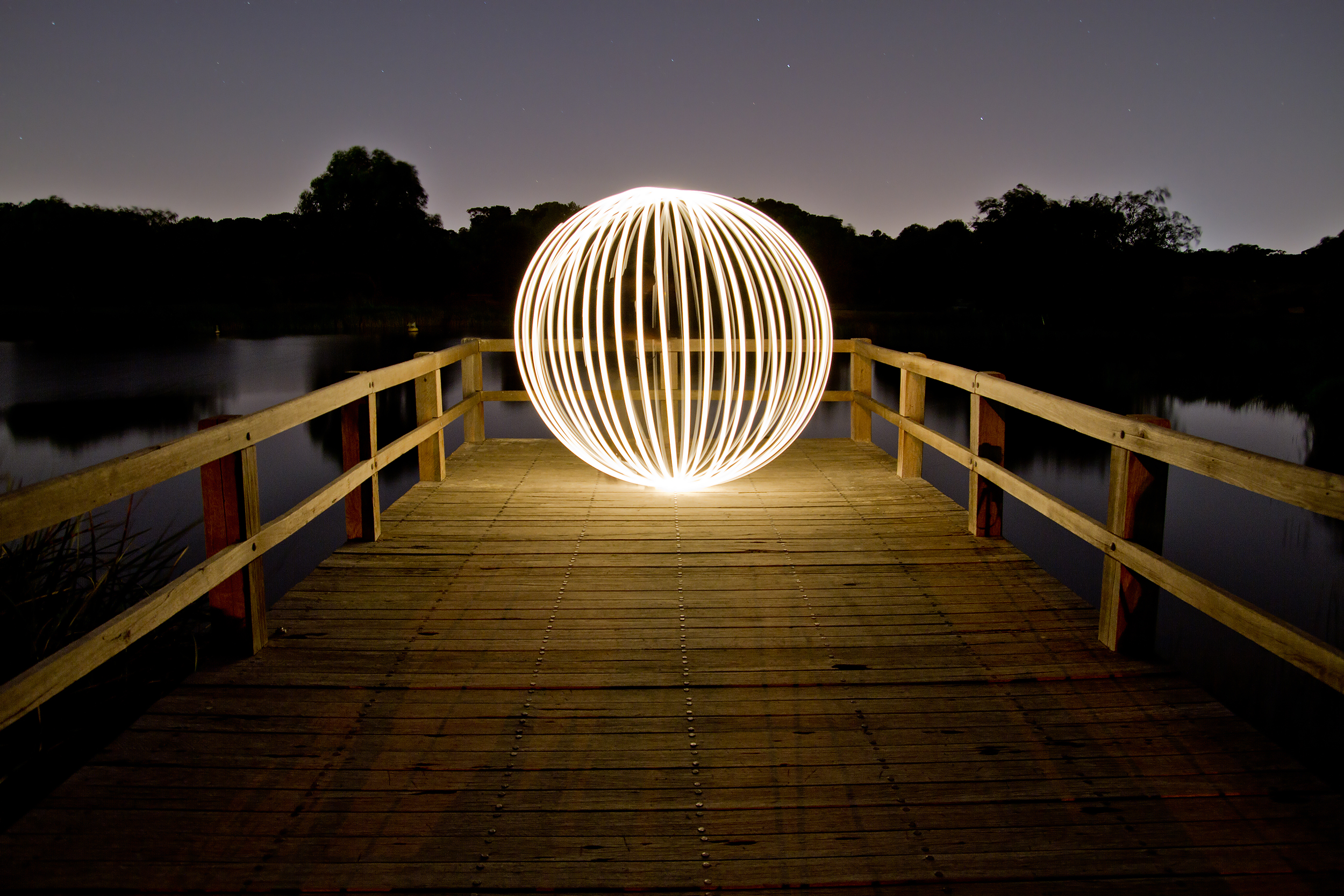 Light painting an orb in Booyeembara Park, Perth, Western Australia, Australia